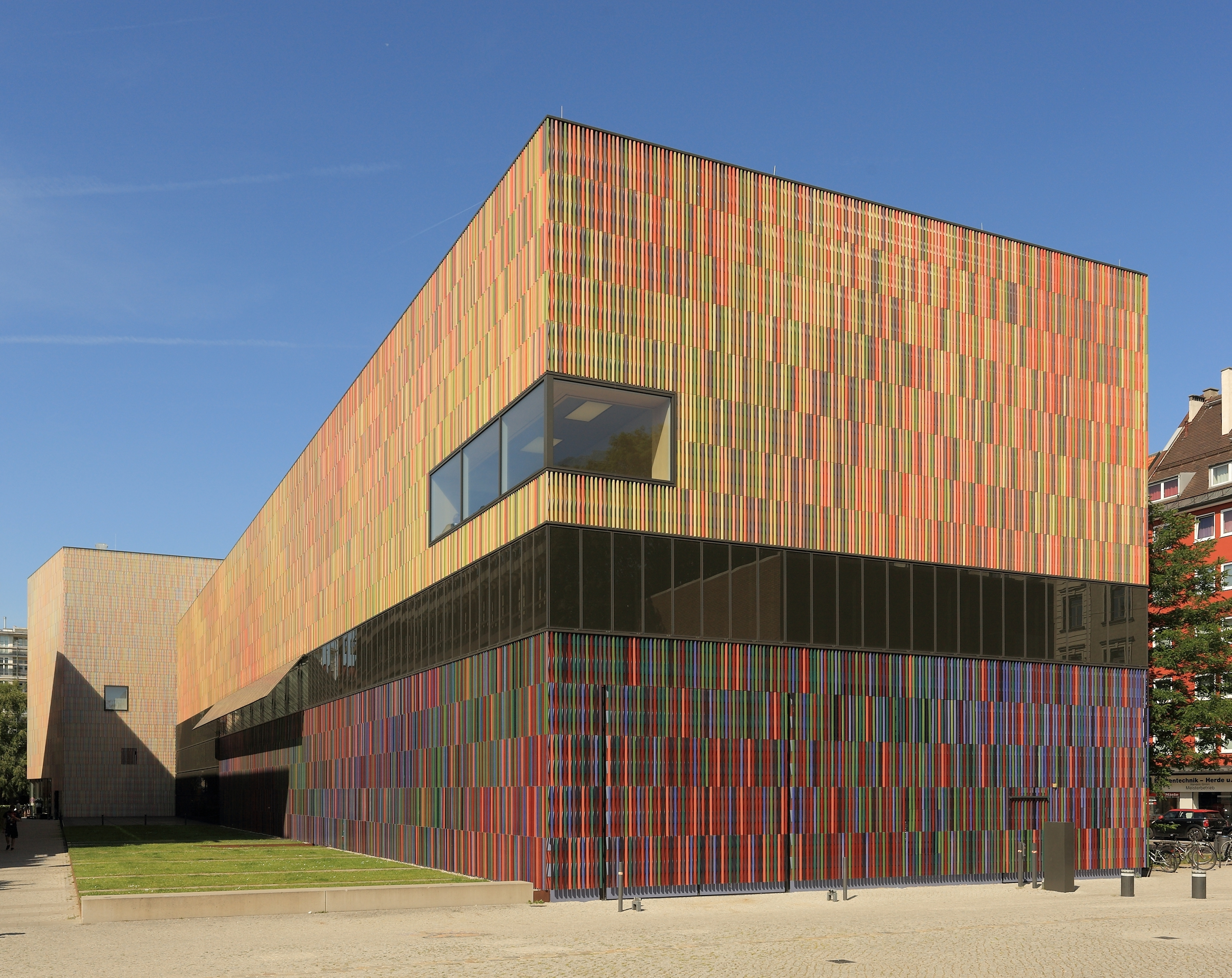 The Museum Brandhorst was opened in Munich on May 21, 2009. It displays about 200 exhibits from the collection of modern art of the heirs of the Henkel trust, Udo Fritz-Hermann and Anette Brandhorst. The building with its long, two-storey, rectangular structure and multi-coloured facade composed of 36,000 vertical ceramic louvres in 23 different coloured glazes was created by architects Sauerbruch Hutton and is located next to the Pinakothek der Moderne in the Kunstareal. The building has three exhibition areas which are connected by stairs.